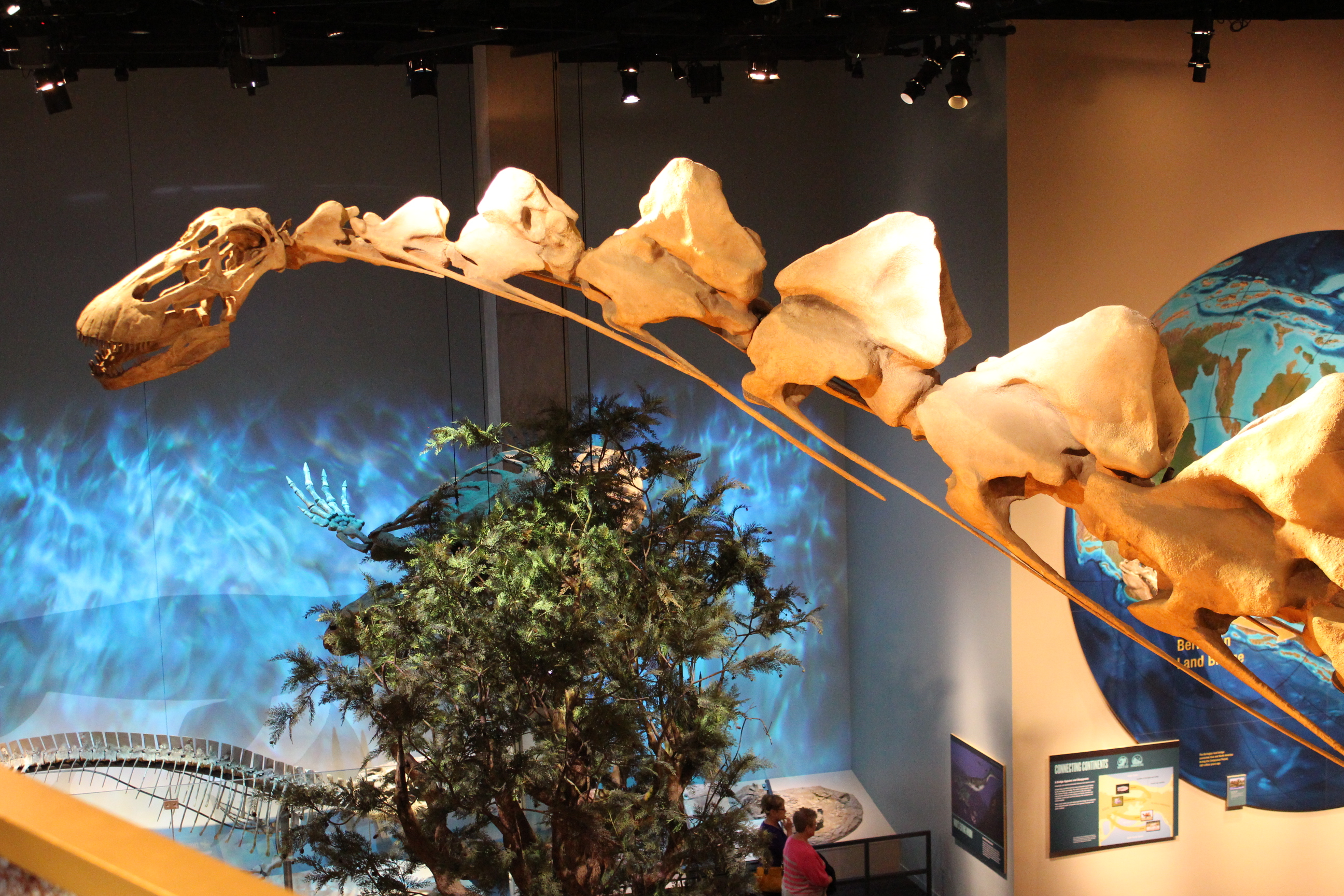 Reconstructed neck and skull of Alamosaurus sanjuanensis.